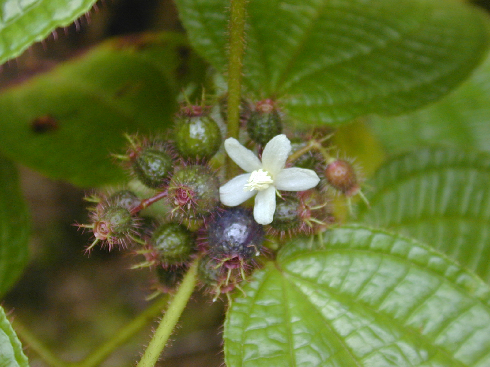 Clidemia hirta (fruits flowers). Location: Maui, Wahinepee